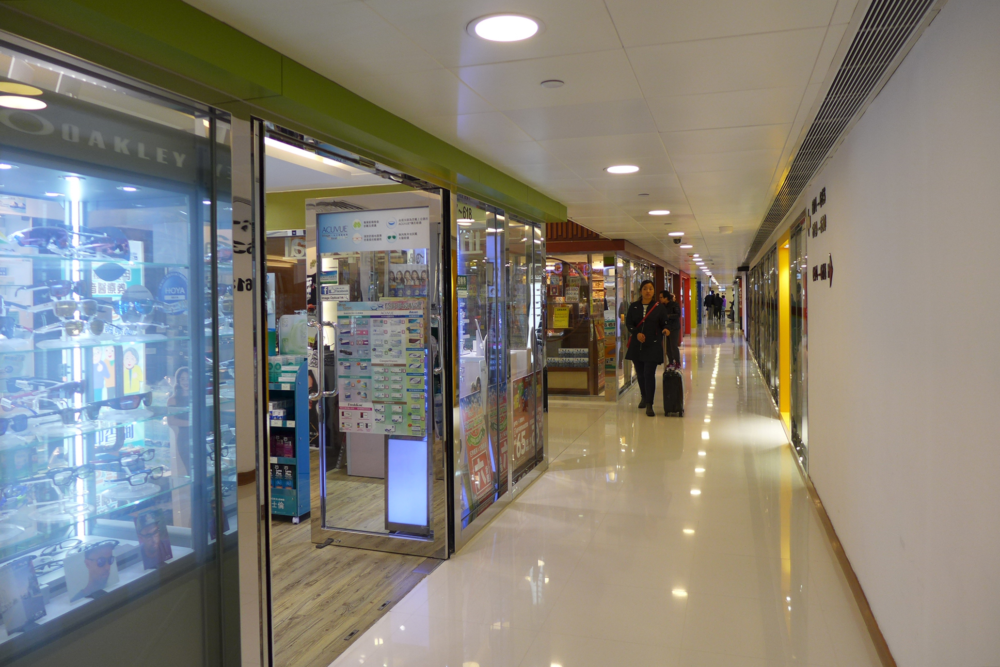 Citylink Level 6